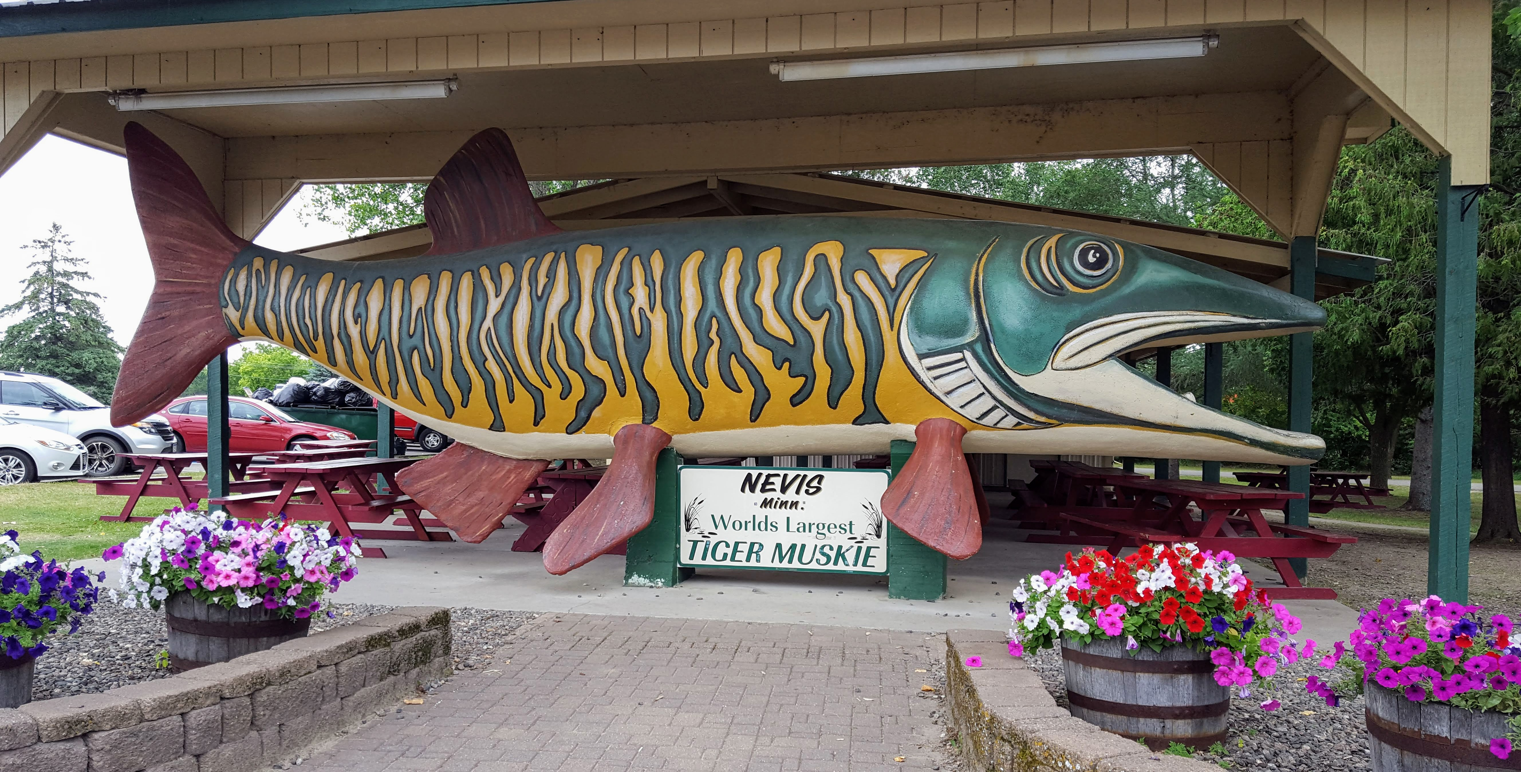 30-foot sculpture of a fish located in Nevis, Minnesota.